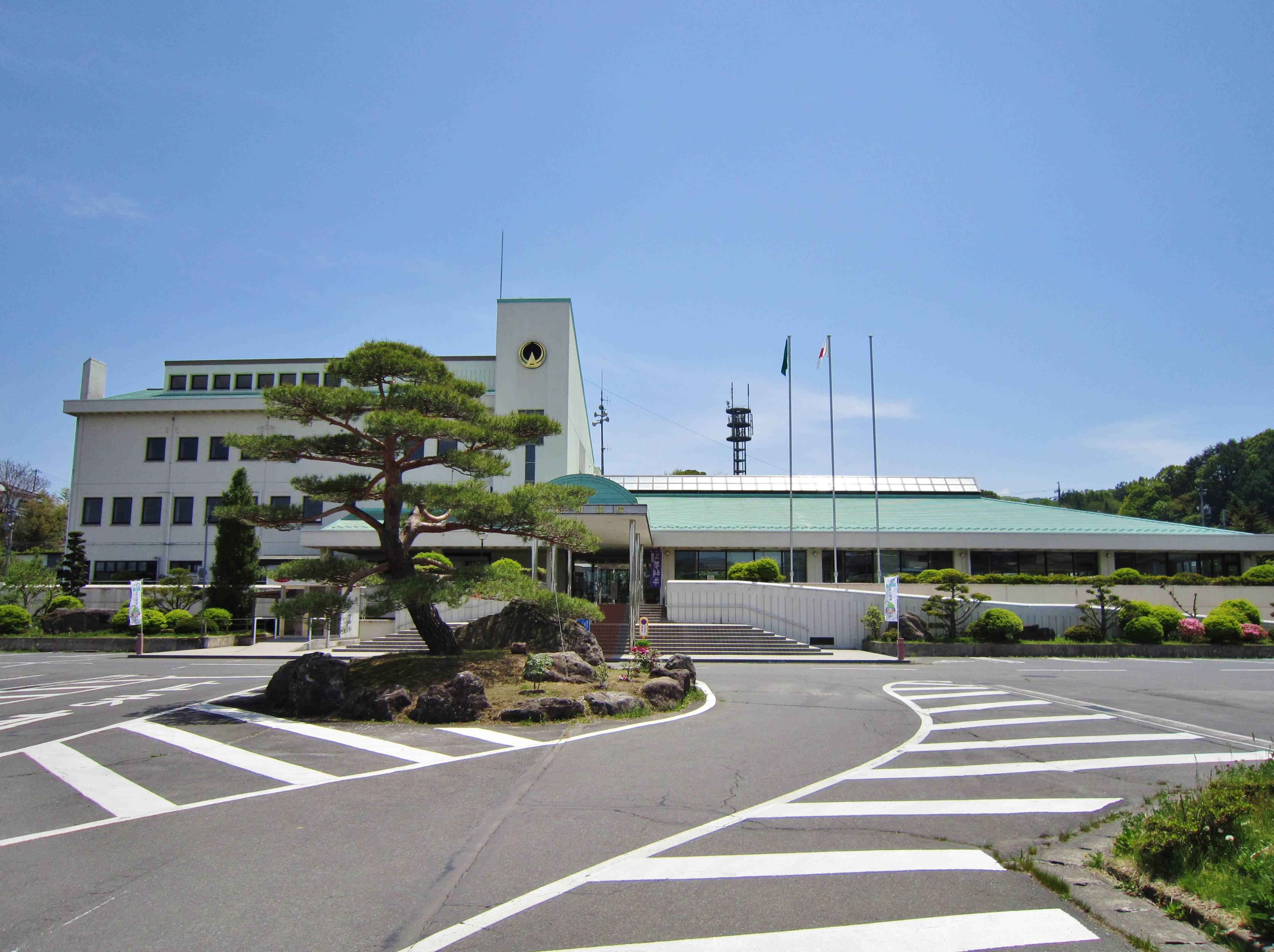 Tateshina town office.